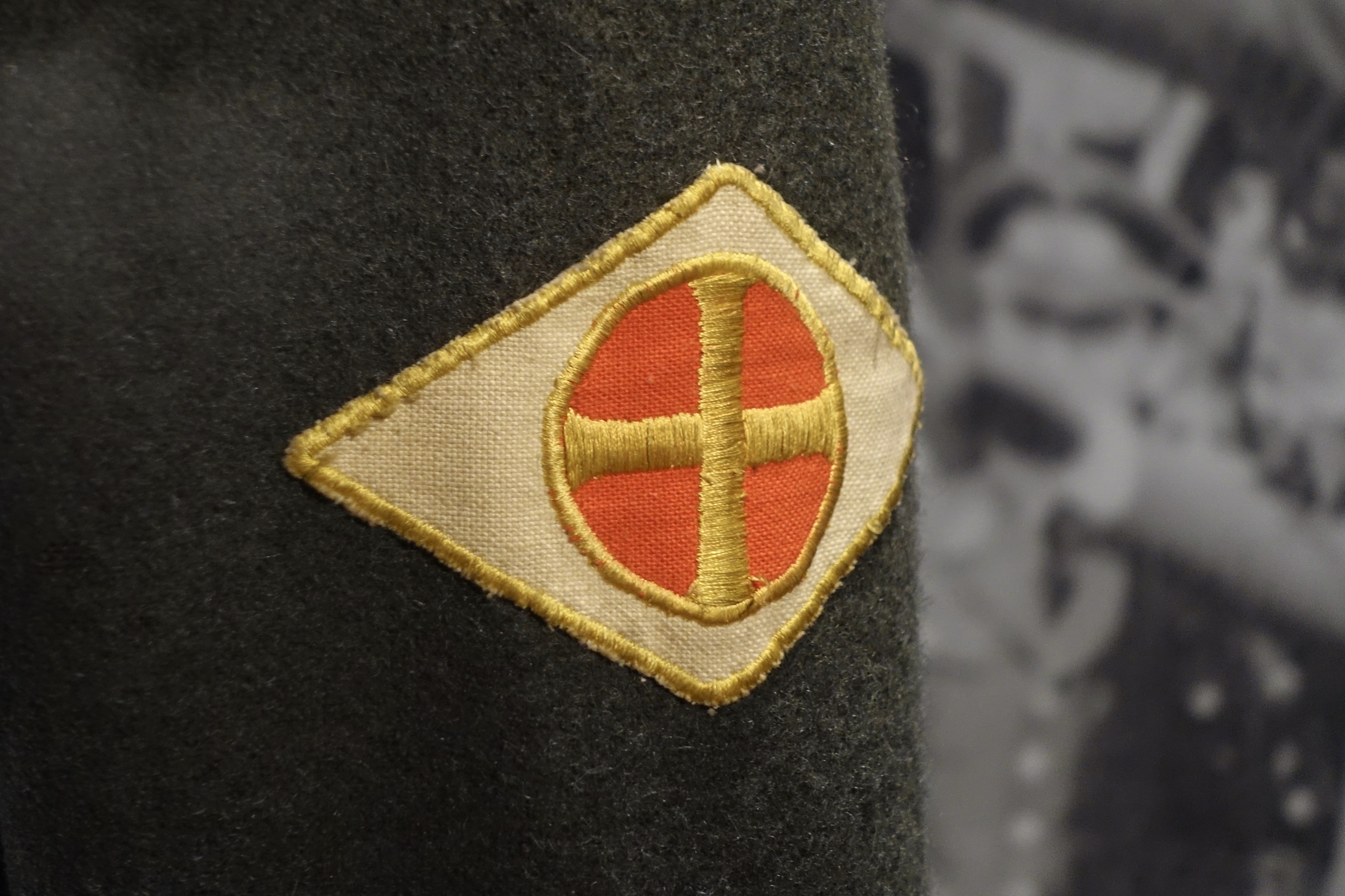 Uniform badge on upper left sleeve of field-grey tunic of Kvinnehirden ("women's Hird"), the women's paramilitary organization of Norwegian Nazi party Nasjonal Samling (NS) during World War II. Machine embroidered cloth patch decorated with circled sun cross emblem of NS in golden yellow and red on diamond shaped bakground in yellowish white. Close-up photo taken on 2019-03-31 at the World War II exhibition of the Armed Forces Museum of Norway (Forsvarsmuseet) at Akershus Fortress, Oslo, Norway.